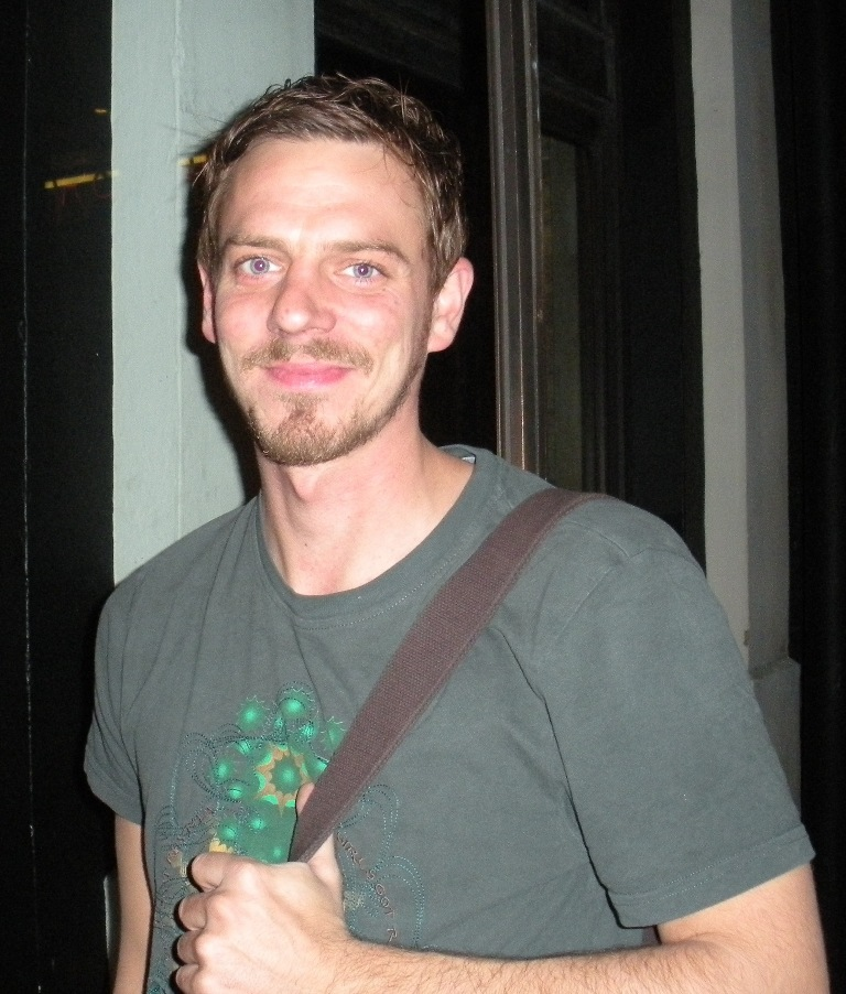 I saw Joe perform in "The Empire" at the Royal Court Theatre